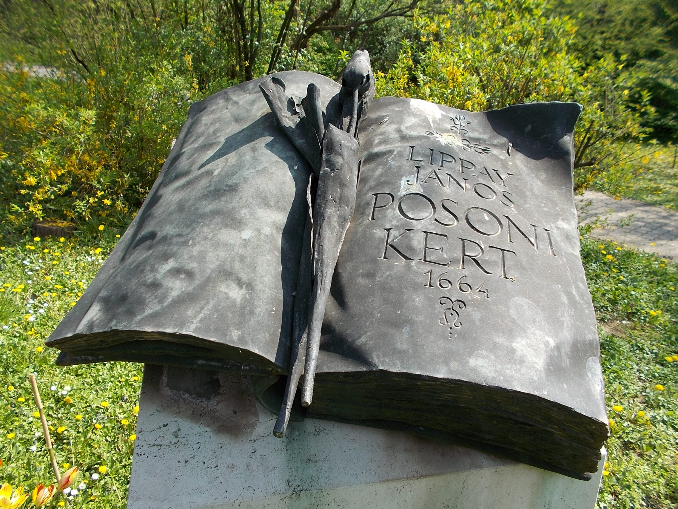 Memorial of János Lippay by József Seregi in Buda Arboretum. Almost eight hectares area is planted around buildings. The first species are here since 1893. Can see more than 1400 ligneous species. Several rare exotic plants growing in the garden thanks to favourable conditions. - Budapest District IX., Hungary.